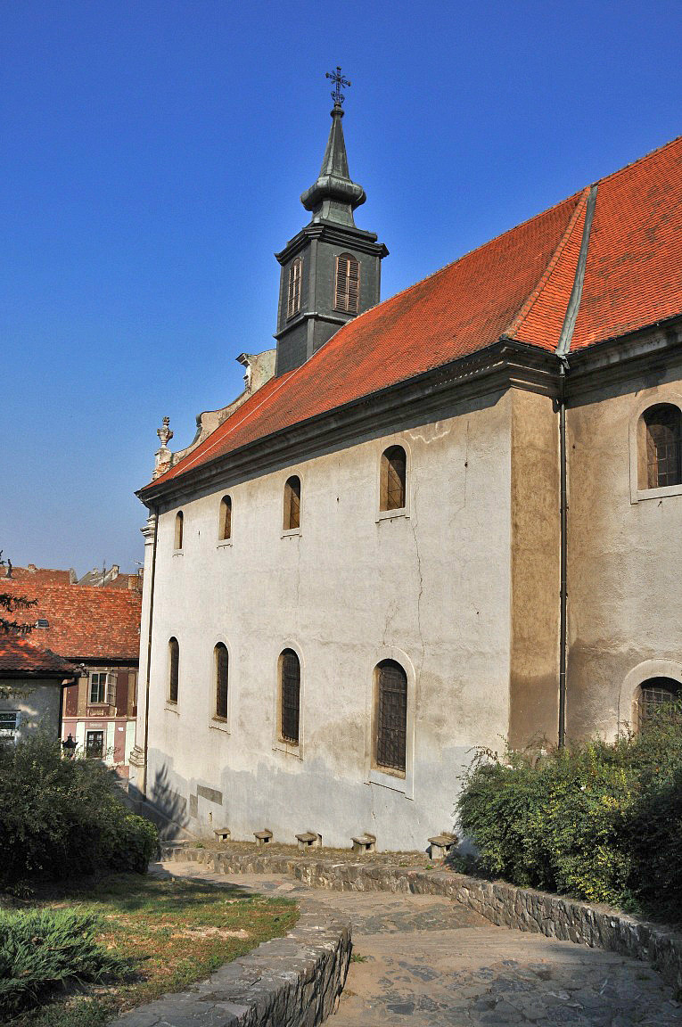 Petrovaradin, Saint George Catholic church